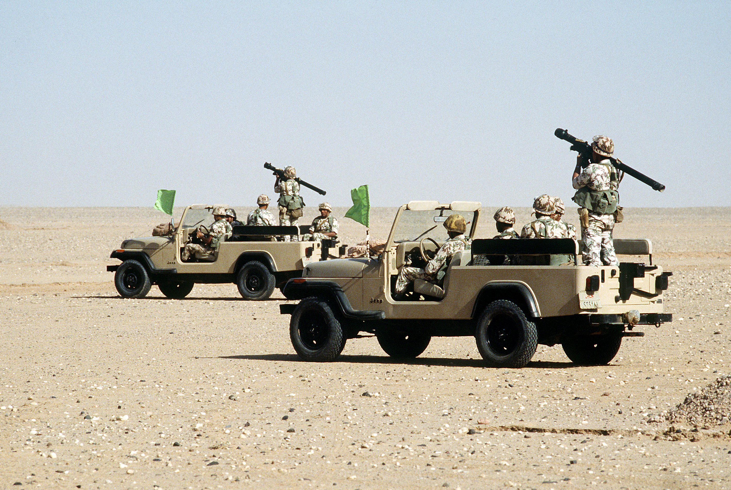 Crews of an Egyptian ranger battalion in Jeep YJ light vehicles give a demonstration for visiting dignitaries during Operation Desert Shield. The soldiers standing are holding SA-7 Grail surface-to-air missiles.